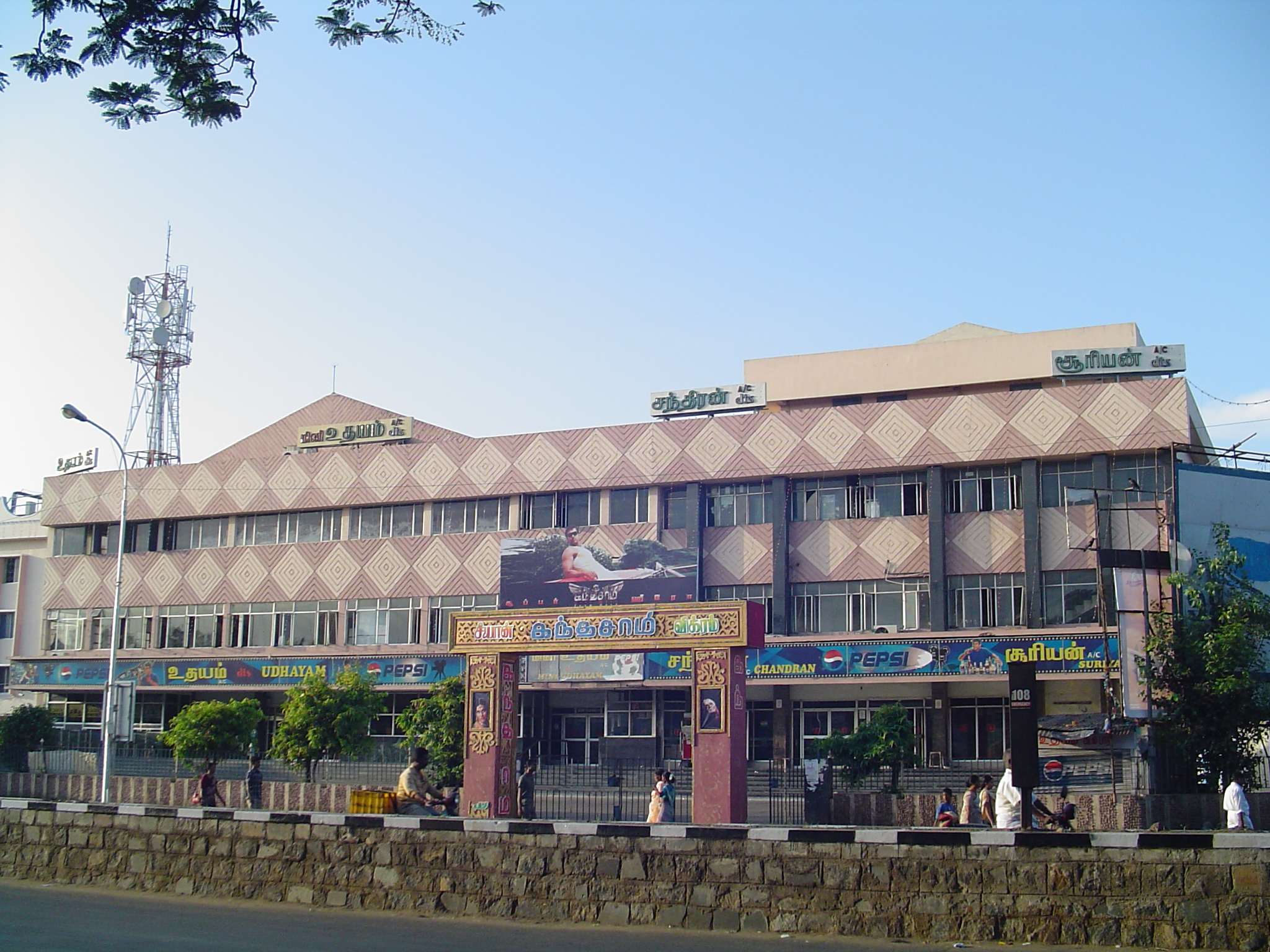 Ashok Nagar Cinema Hall